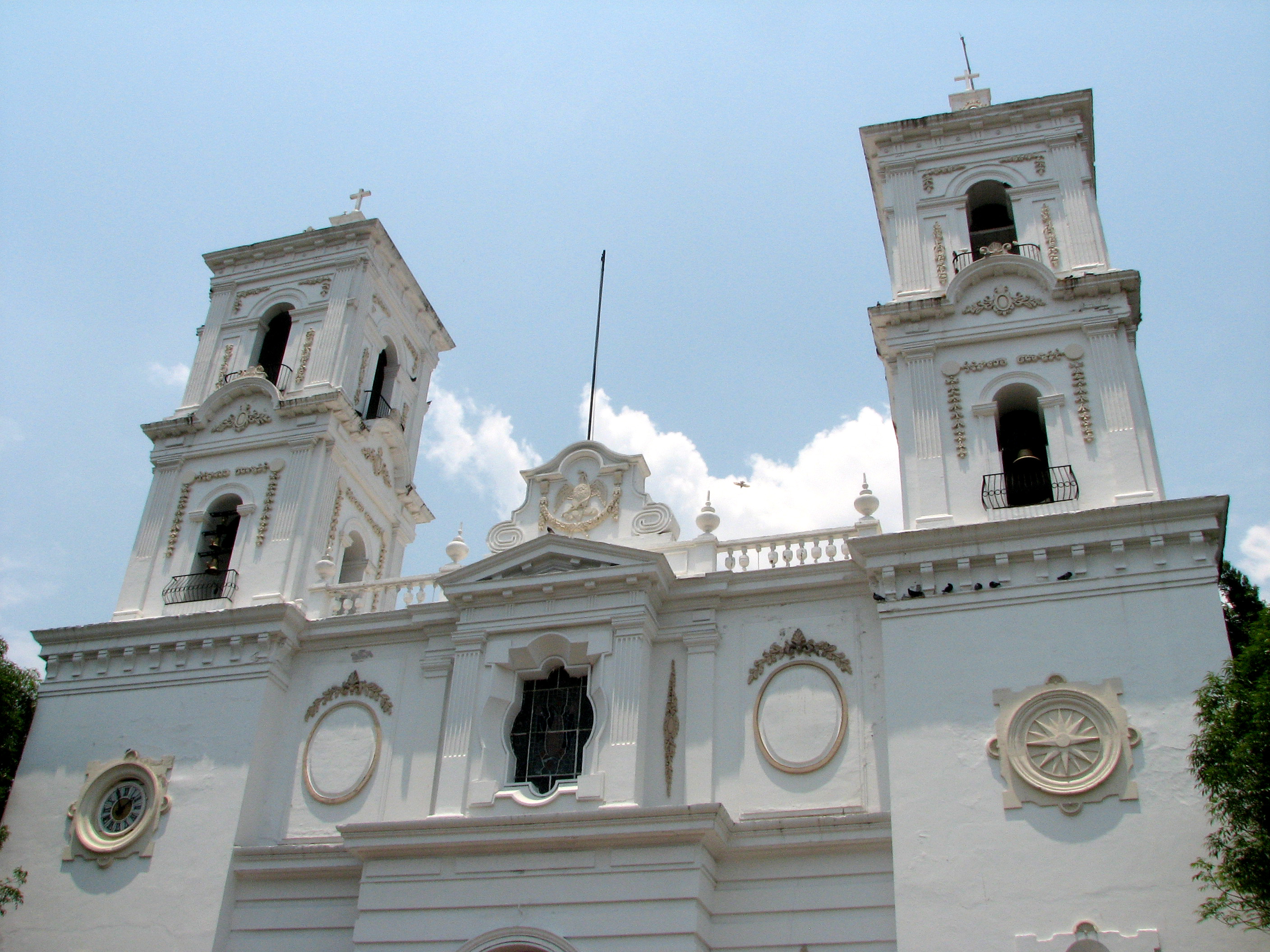 Vista frontal de la Catedral de la Asuncion en Chilpancingo